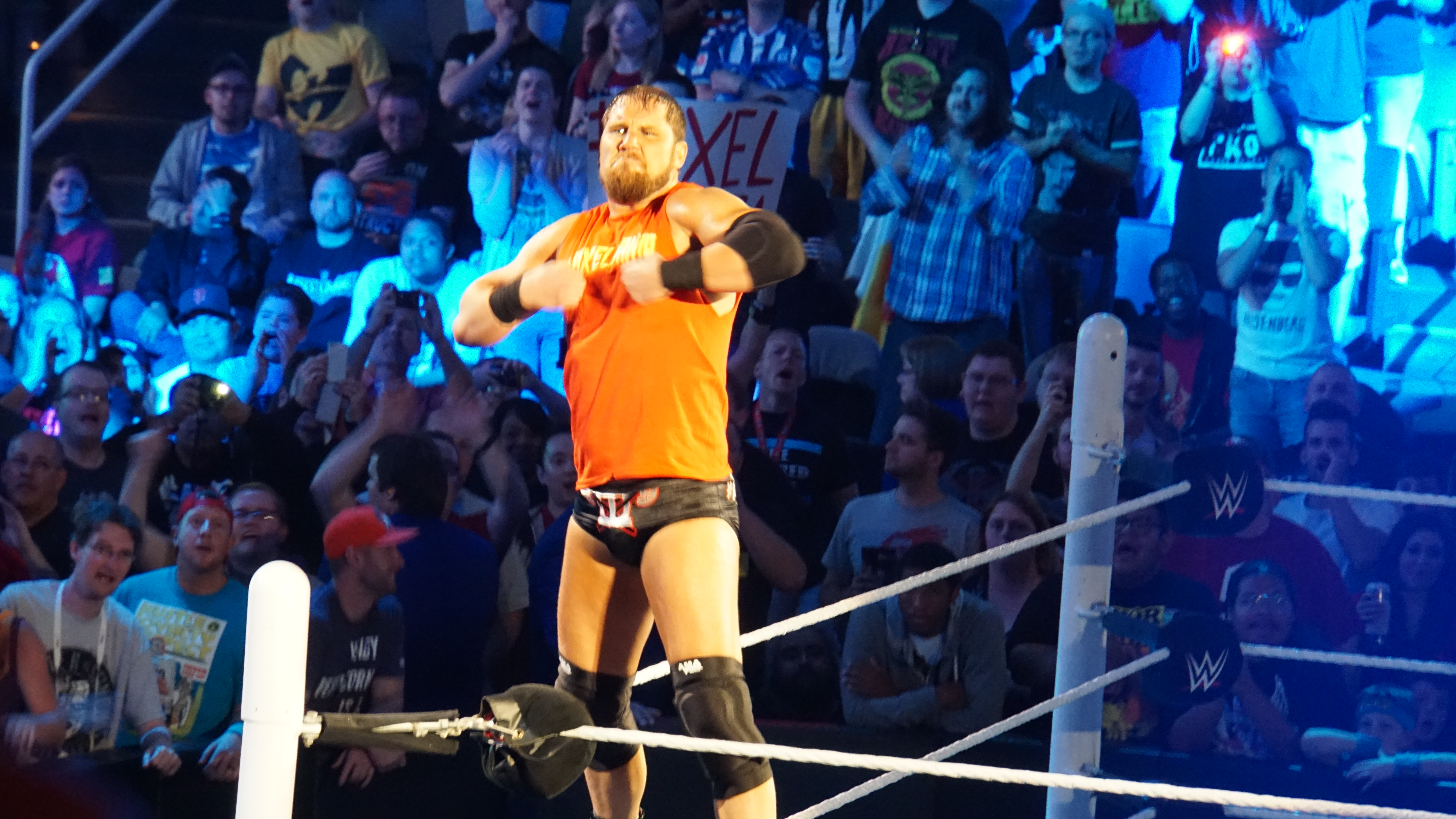 Curtis Axel as Axelmania in March 2015.